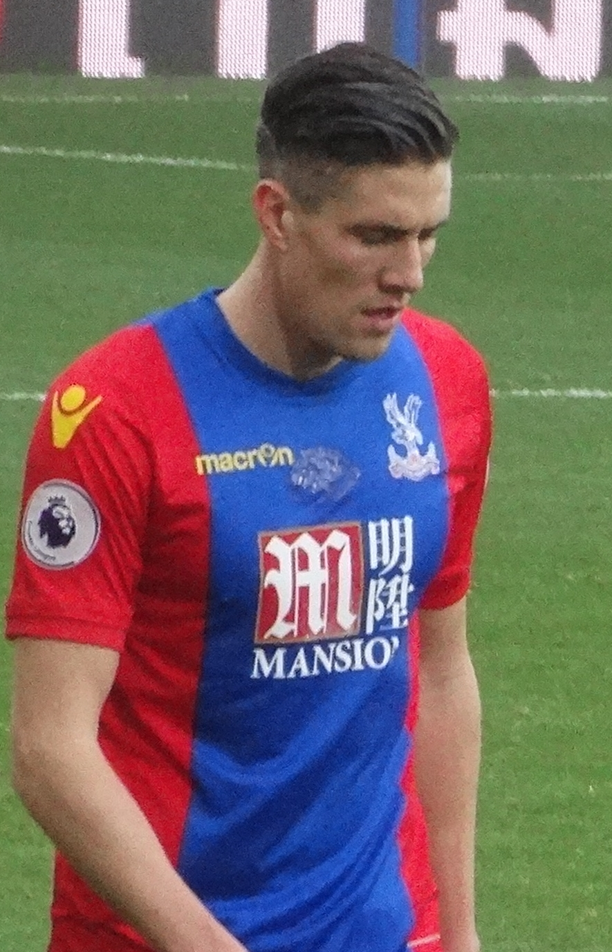 Martin Kelly playing for Crystal Palace against Chelsea at Selhurst Park, London on 17 December 2016